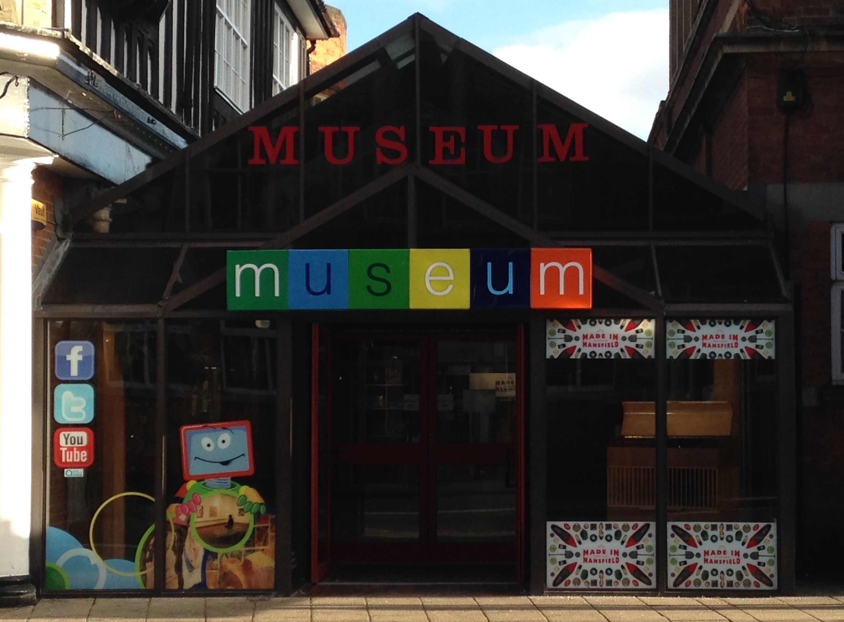 The front of Mansfield Museum on Leeming Street, Mansfield